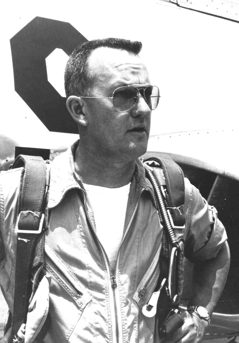 Tony LeVier in front of one of the jets he tested.